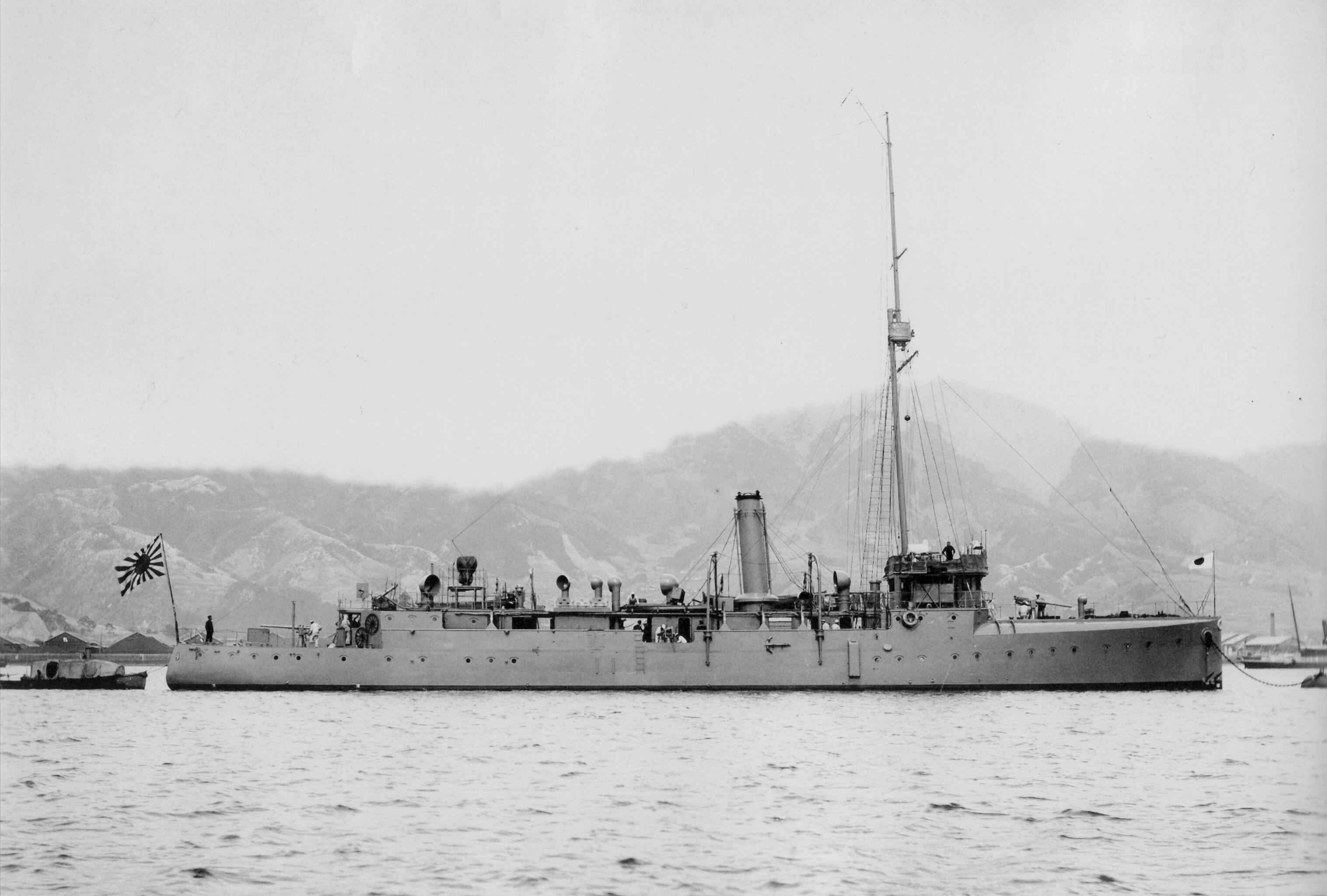 IJN gunboat UJI(I) at Kure Naval Base.